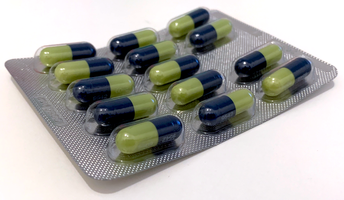 Pharmaceutical Blister Pack with Capsules